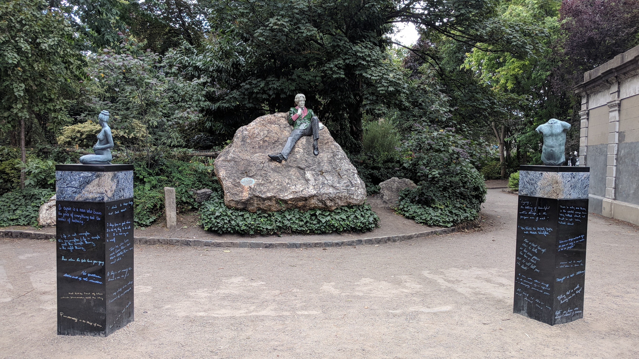 Statue of Oscar Wilde and companion pieces, Merrion Square Park, Dublin, Ireland.